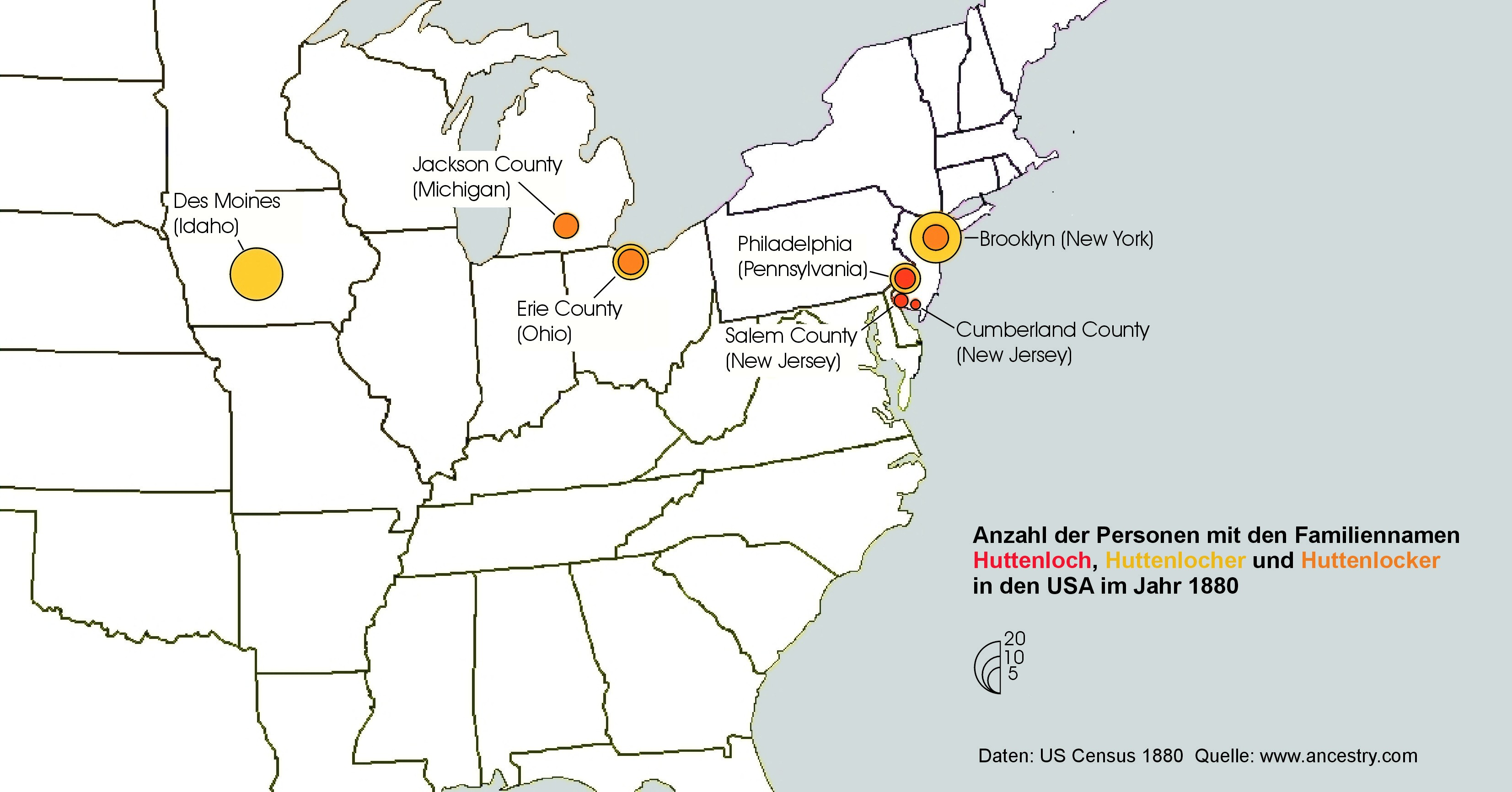 Map: Number of the people with the family name Huttenloch, Huttenlocher, Huttenlocker in the USA in 1880